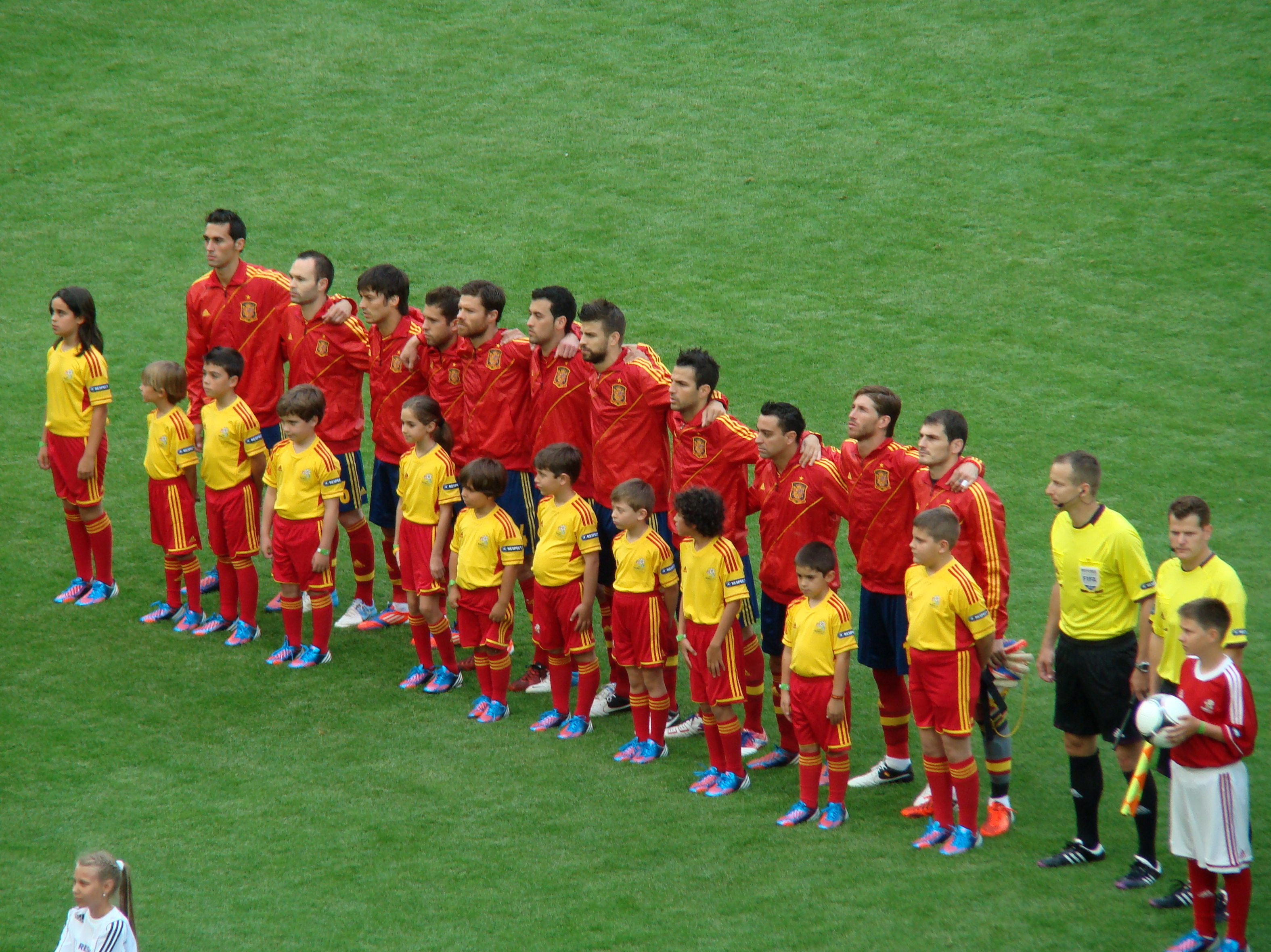 Spain national team while playing national anthem before the match against Italy during Euro 2012. From left to right: Álvaro Arbeloa, Andrés Iniesta, David Silva, Jordi Alba, Xabi Alonso, Sergio Busquets, Gerard Piqué, Cesc Fàbregas, Xavi, Sergio Ramos and Iker Casillas.